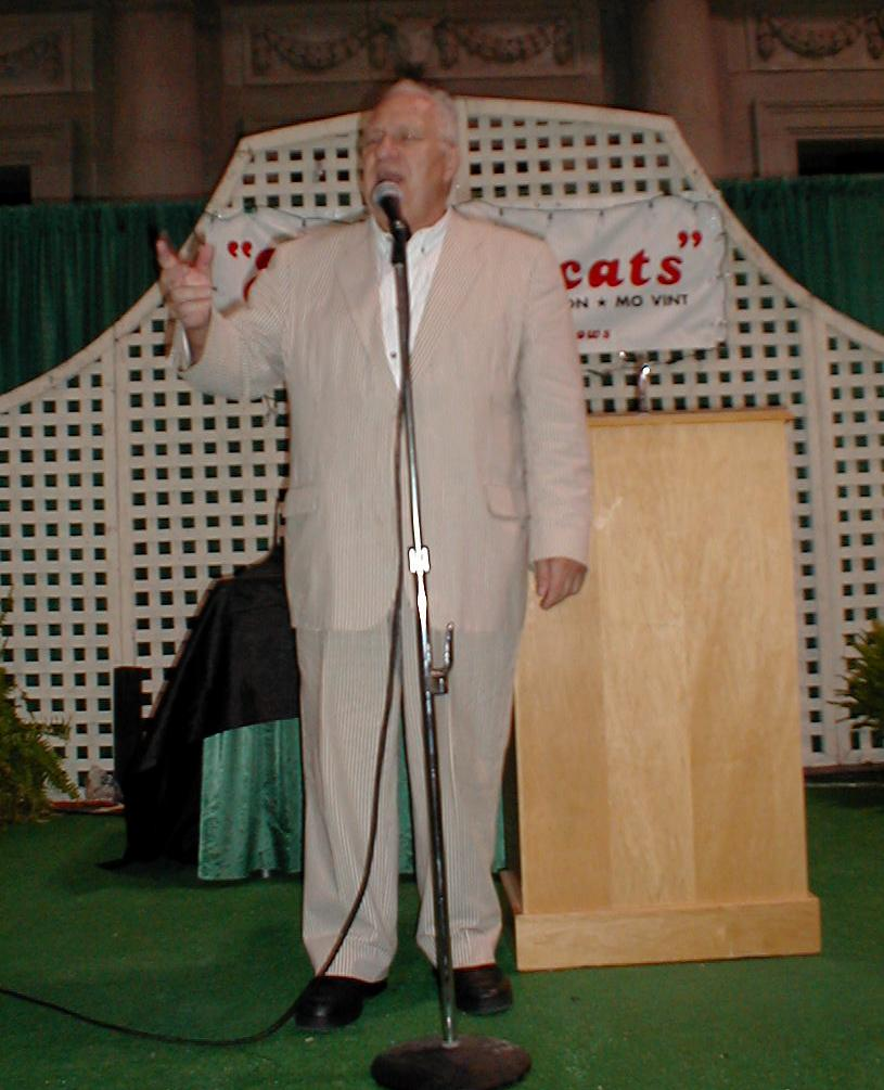 John Colombo doing a presentation called, "Haunted Toronto" in the Direct Enery Centre.